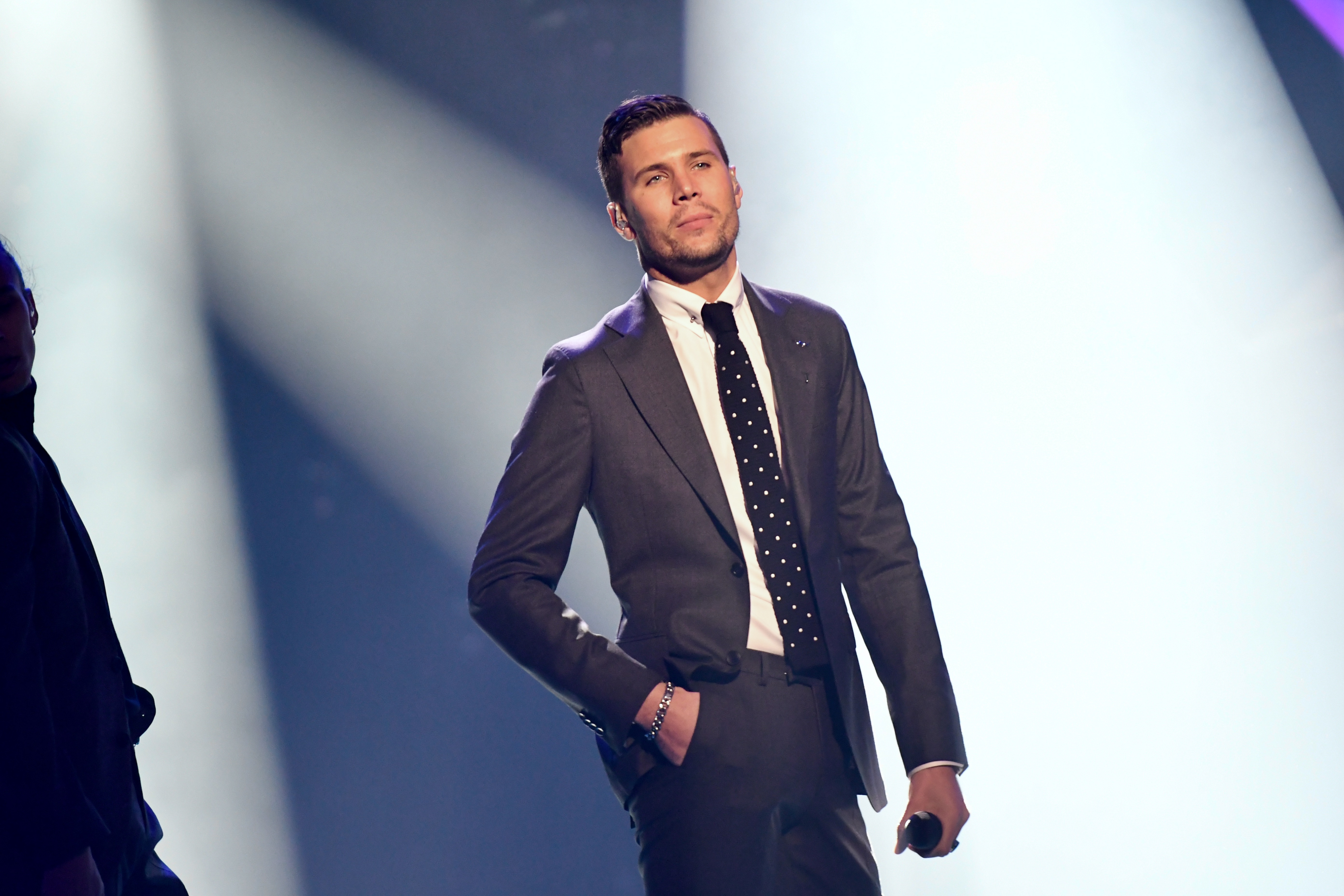 Robin Bengtsson @ Melodifestivalen 2017